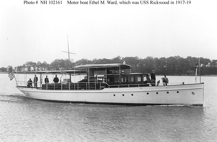 The motorboat Ethel M. Ward, later renamed Rickwood, and which later still served as the United States Navy patrol vessel